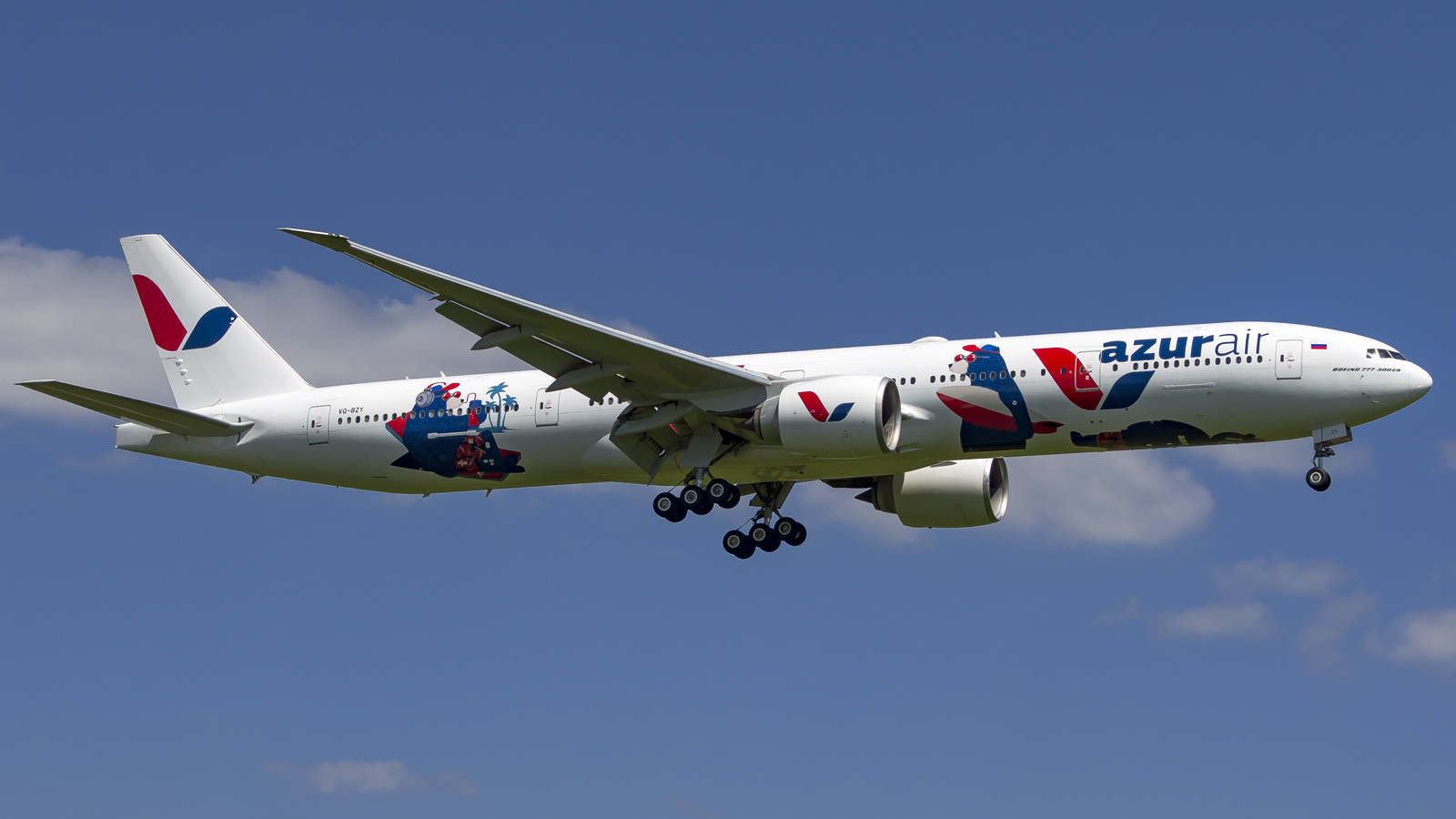 VQ-BZY Boeing 777-300ER Azur Air | Bears livery DME | UUDD First Boeing 777 in Azur Air New registration VQ-BZY (ex. VP-BIN VIMavia, sn 33501) Special color scheme "The Bears")